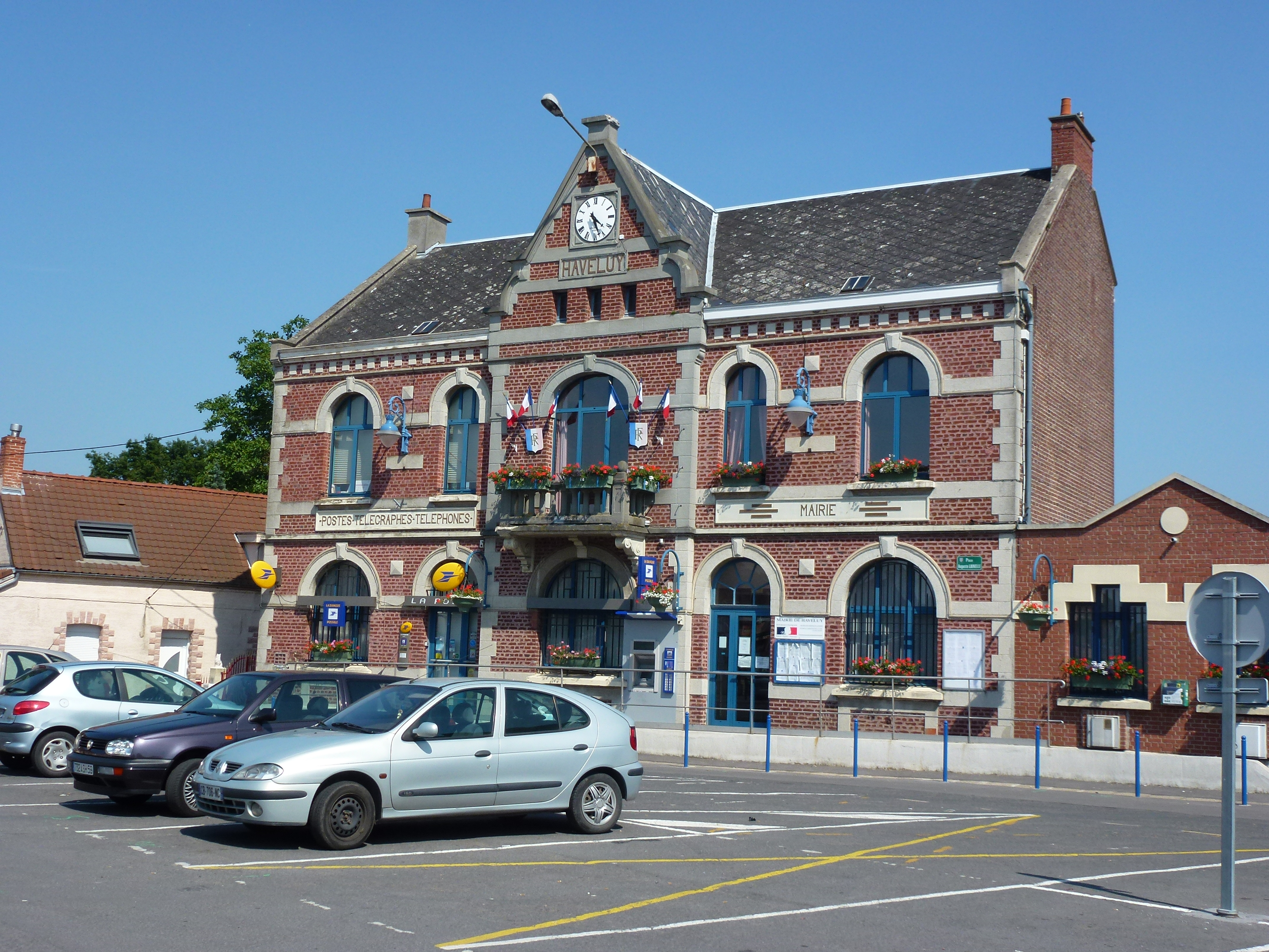 Haveluy (Nord, Fr) mairie et PTT